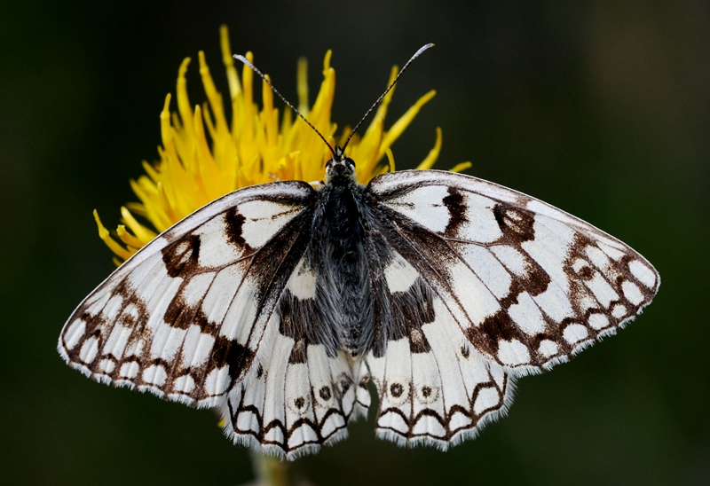 Wing upperside view of an Esper's Marbled White. Palandöken, Erzurum - Turkey. 2300 m.